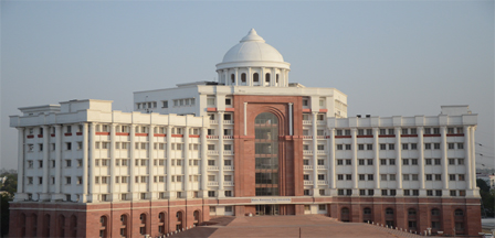 University Main Building